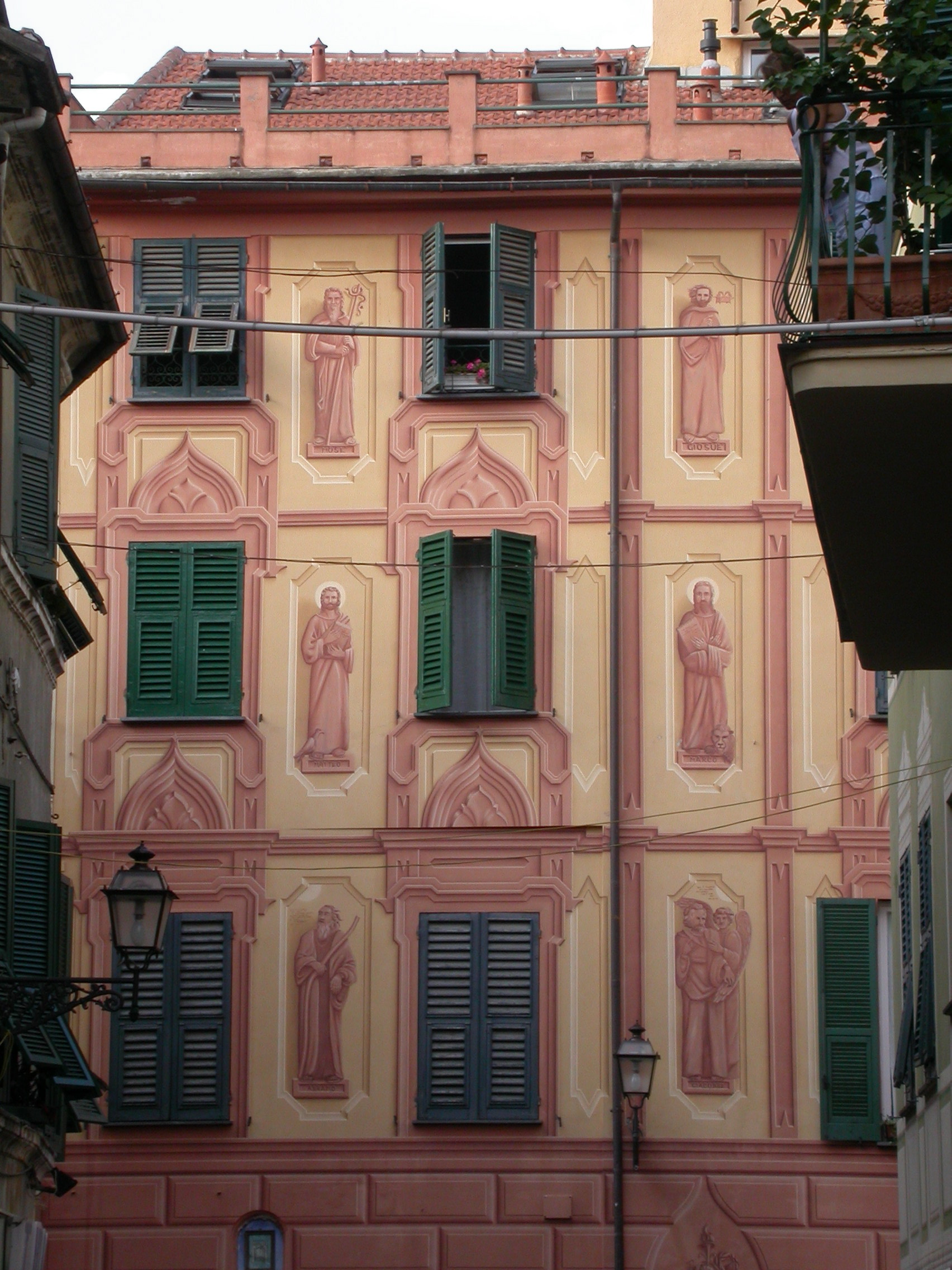 Facade frescos on villa in Rapallo, Liguria, Italy